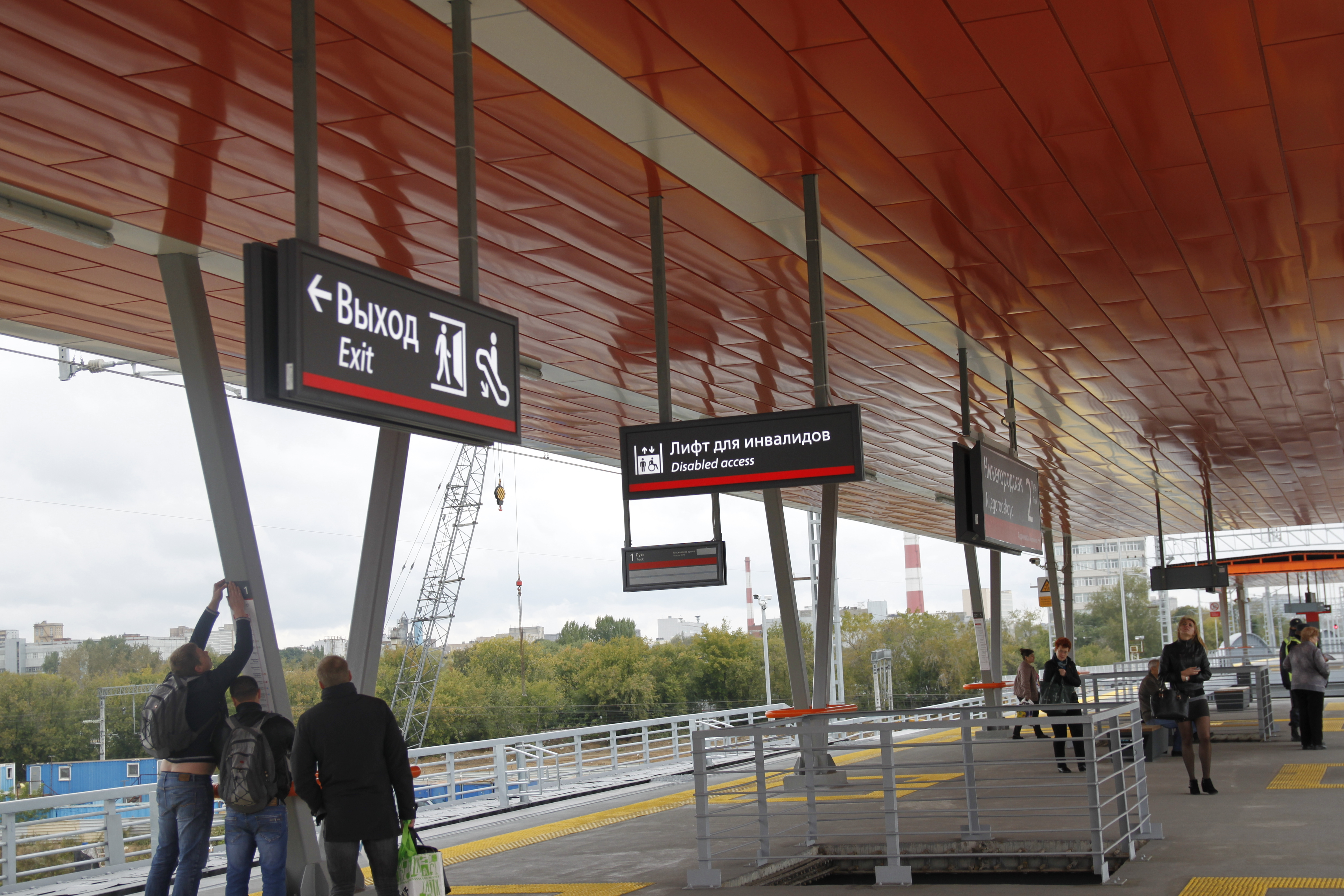 Nizegorodskaya MCC station